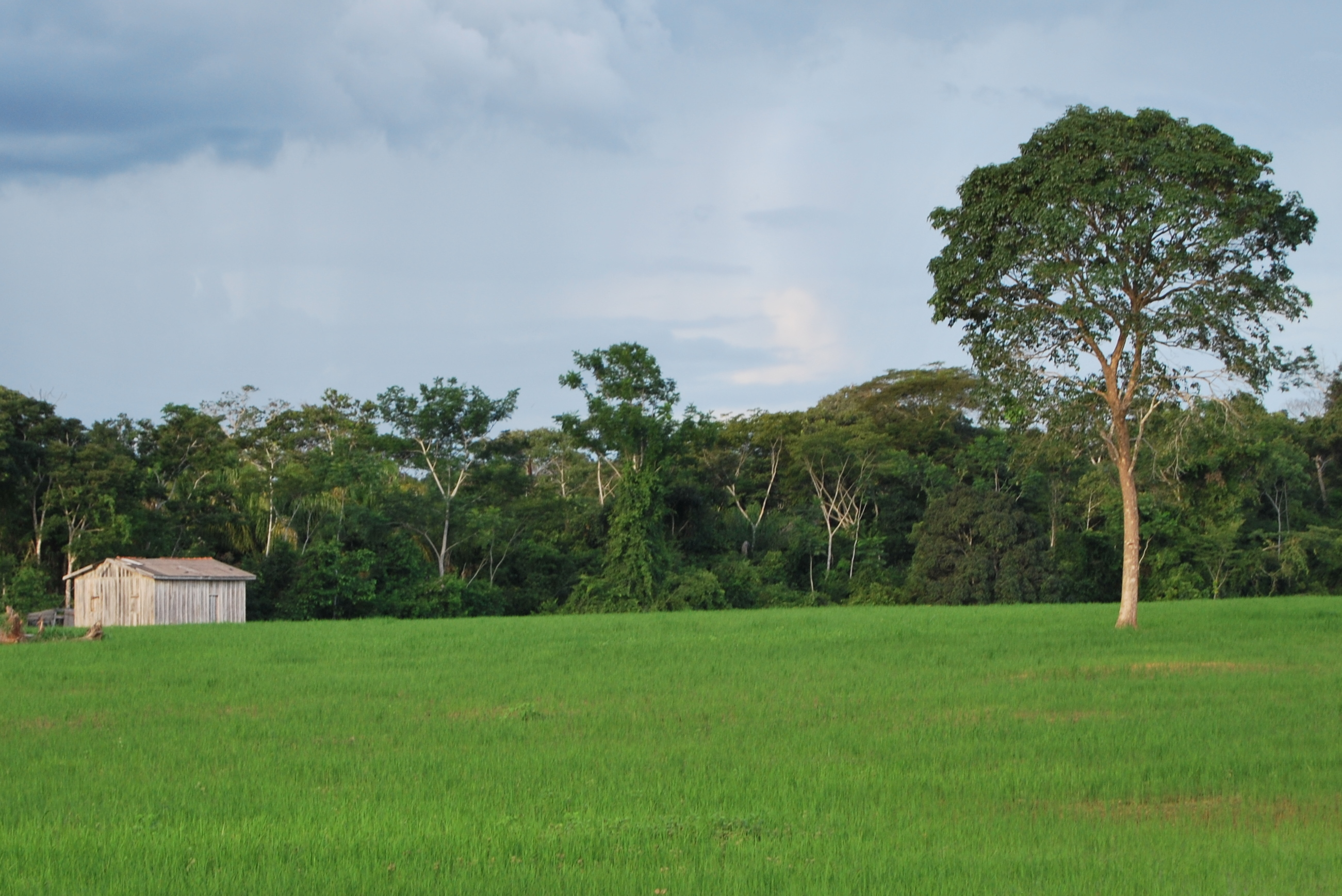 Planting rice in the Municipality of Presidente Medici - Rondônia - Brazil